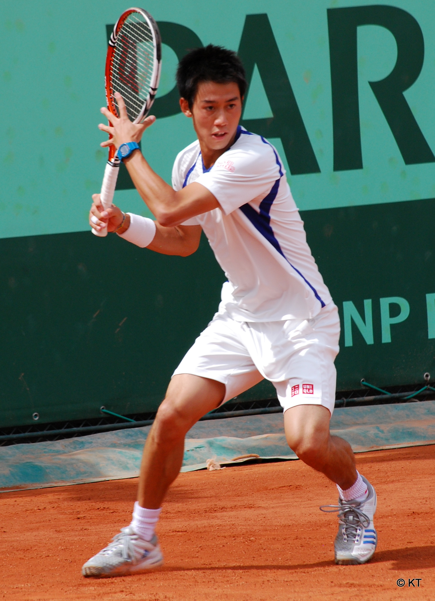 Kei Nishikori during his 1st round match with Maximo Gonzalez, against Pablo Cuevas & Lukas Dlouhy. Roland Garros 2011.